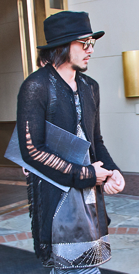 Joe Odagiri at the 2009 Toronto International Film Festival.